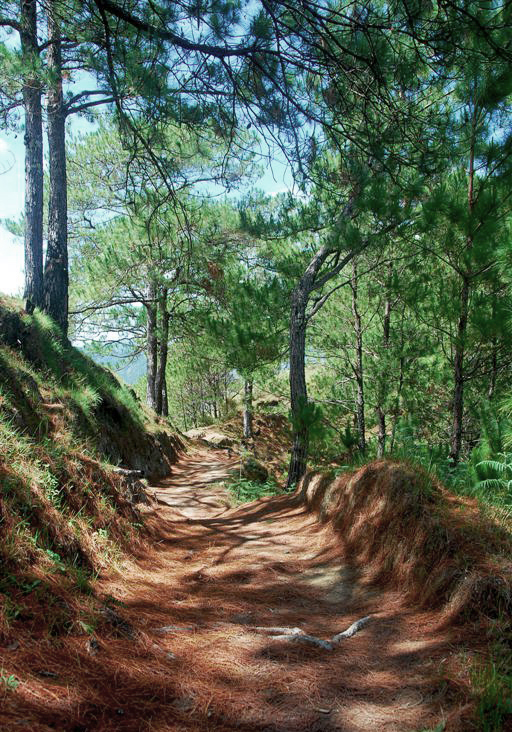 Pinus kesiya forest, Mt. Ugo, Cordillera Central, Luzon, Philippines; approx. 16°19'N 120°48'E.